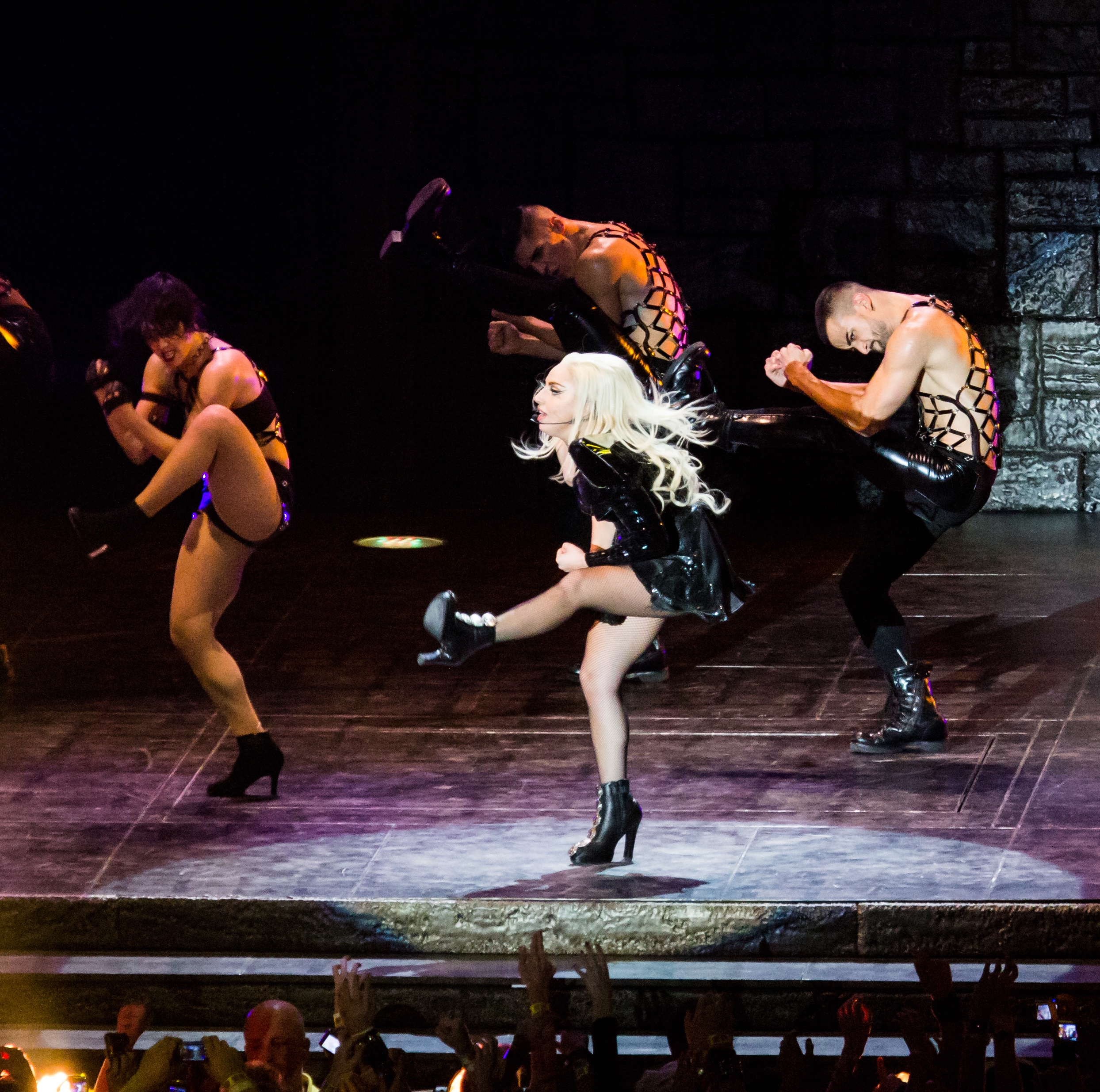 Lady Gaga performing "Telephone" on the Born This Way Ball tour